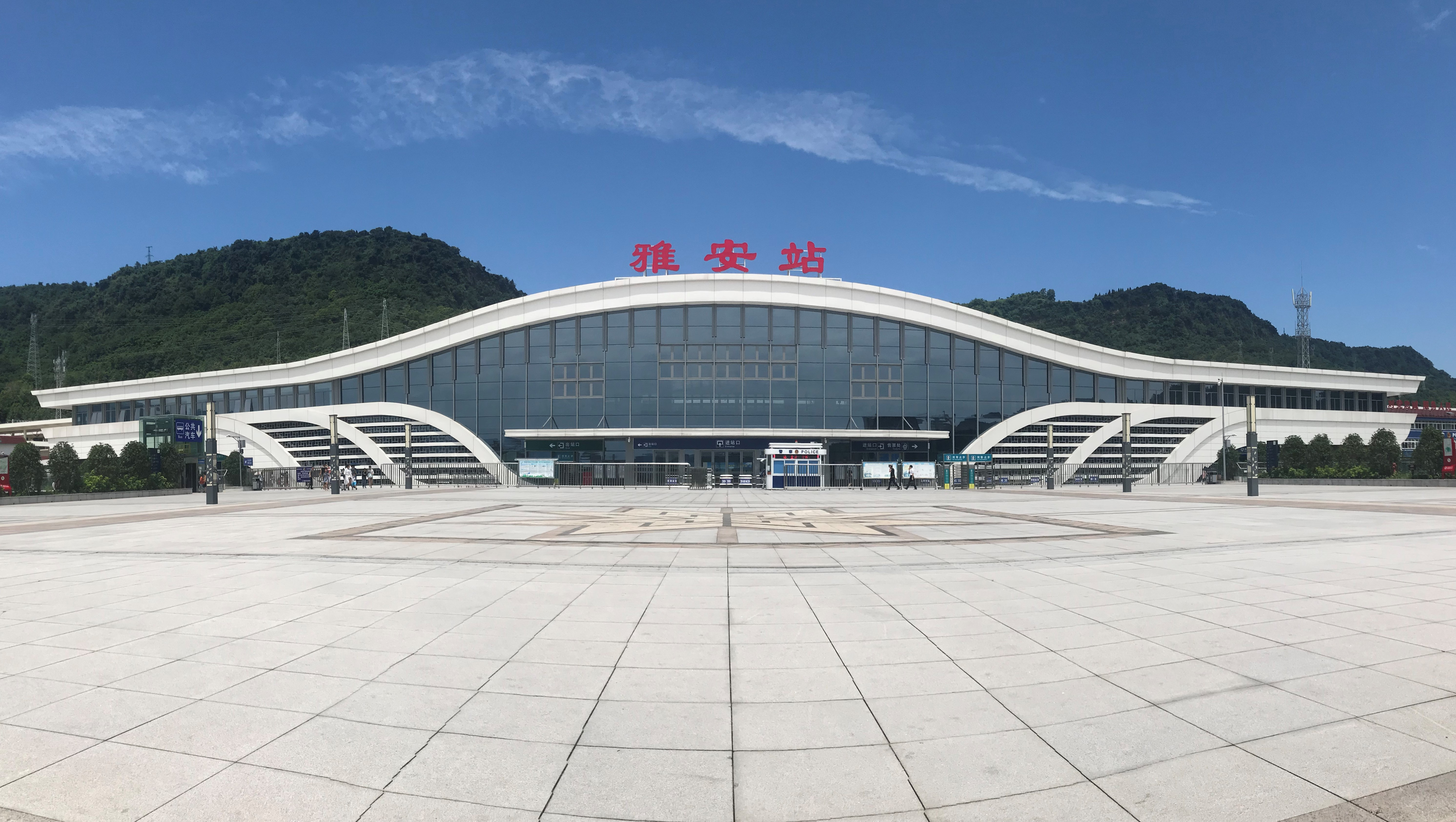 201908 Station Building of Ya'an Panorama